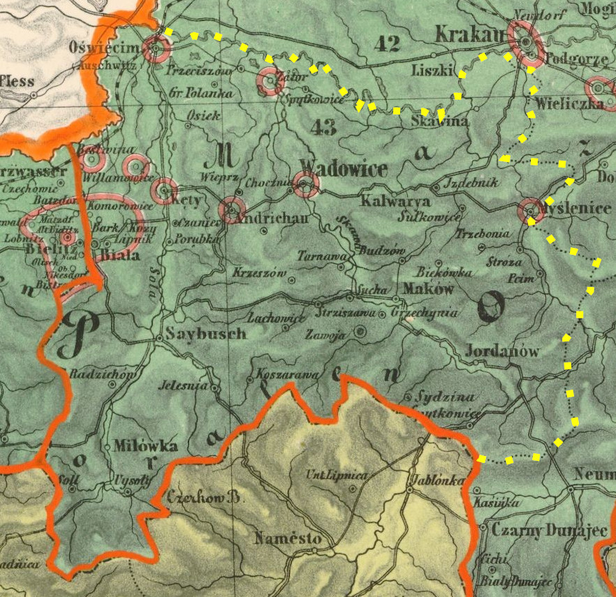 Wadowice County (1782-1854/1867) on an austrian map from 1855